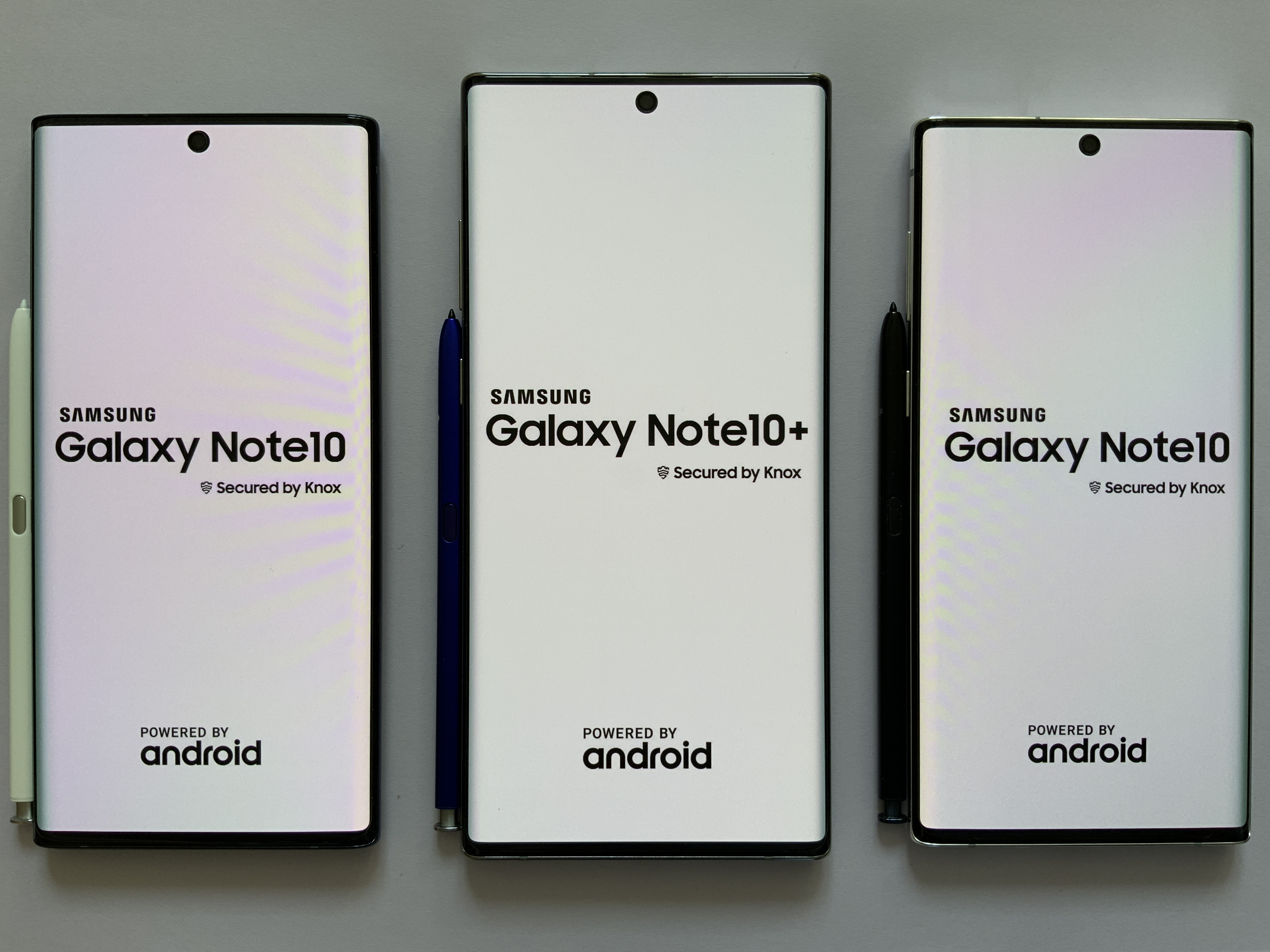 SAMSUNG Galaxy Note10 SAMSUNG Galaxy Note10 5G SAMSUNG Galaxy Note10+ SAMSUNG Galaxy Note10+ 5G